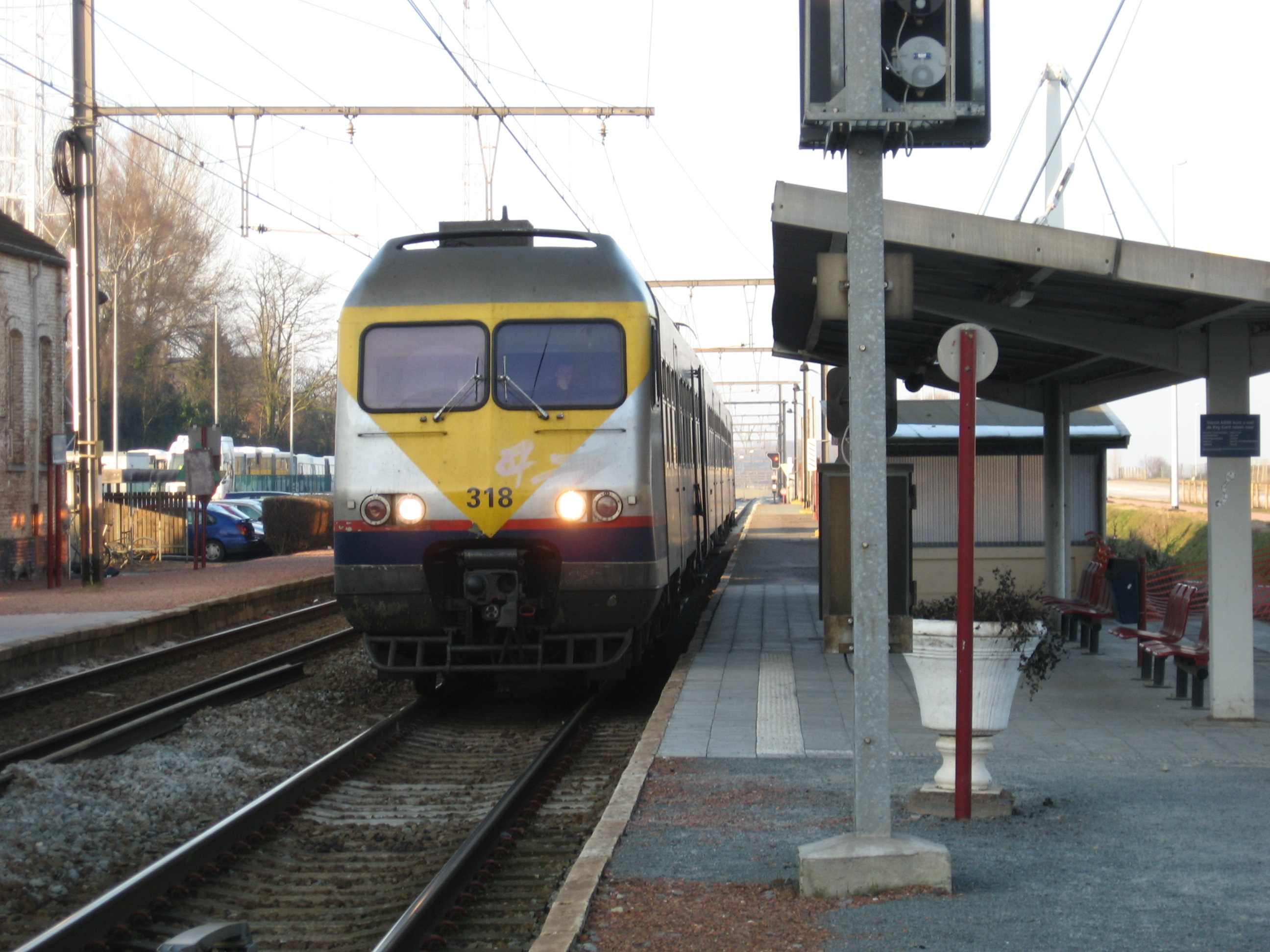 Asse station on line 60